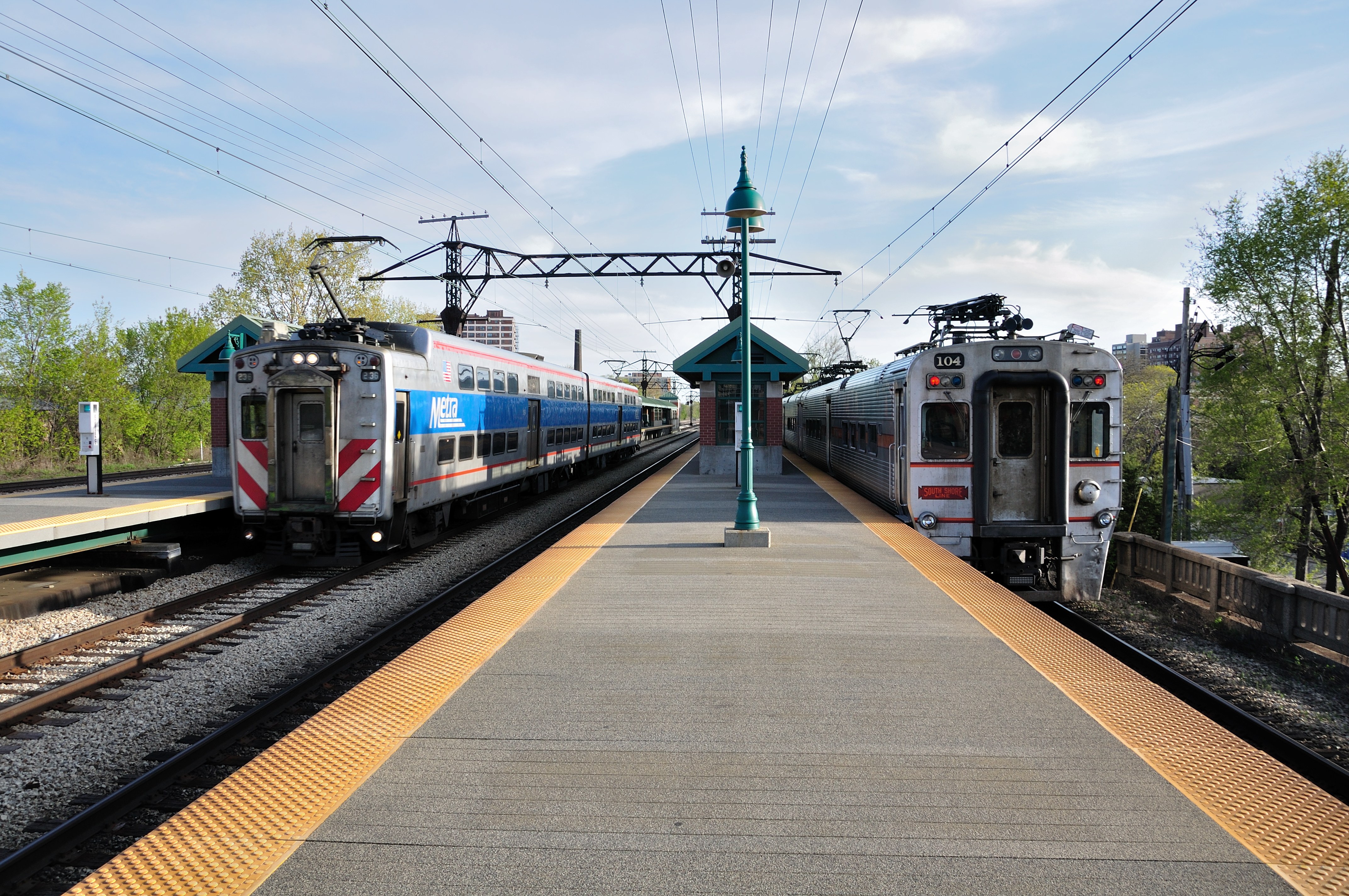 A Metra train (left) and a South Shore Line train (right) at 55–56–57th Street station.